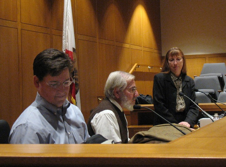 Judges critique participants at the end of a mock trial.